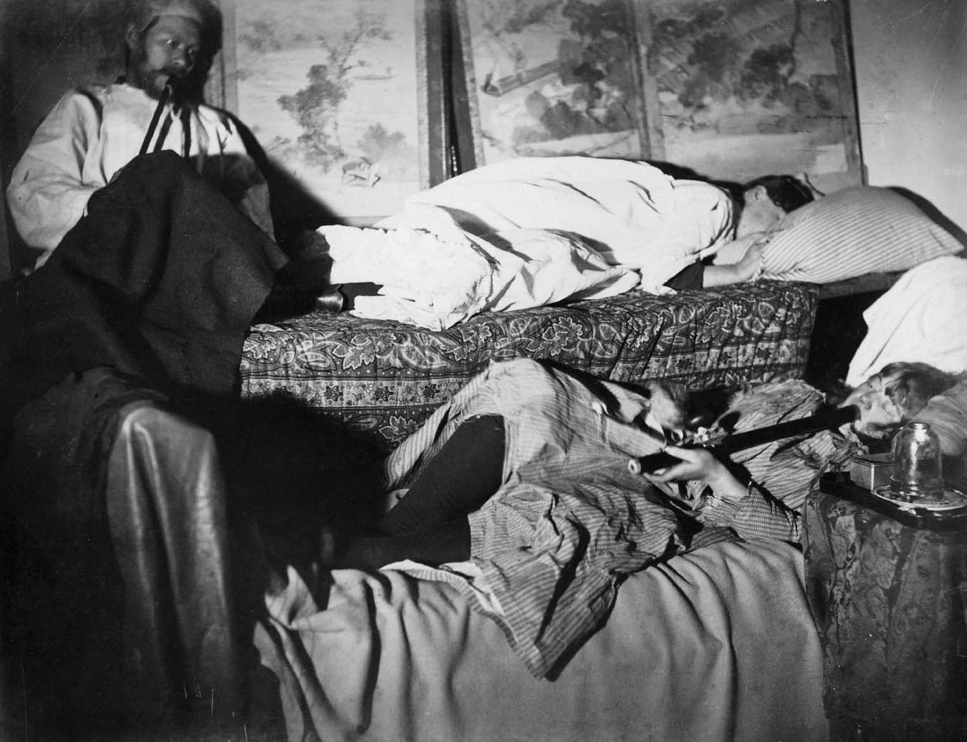 White Women in Opium Den, Chinatown, S. F.: From Album of views of California and the West, Canada, and China